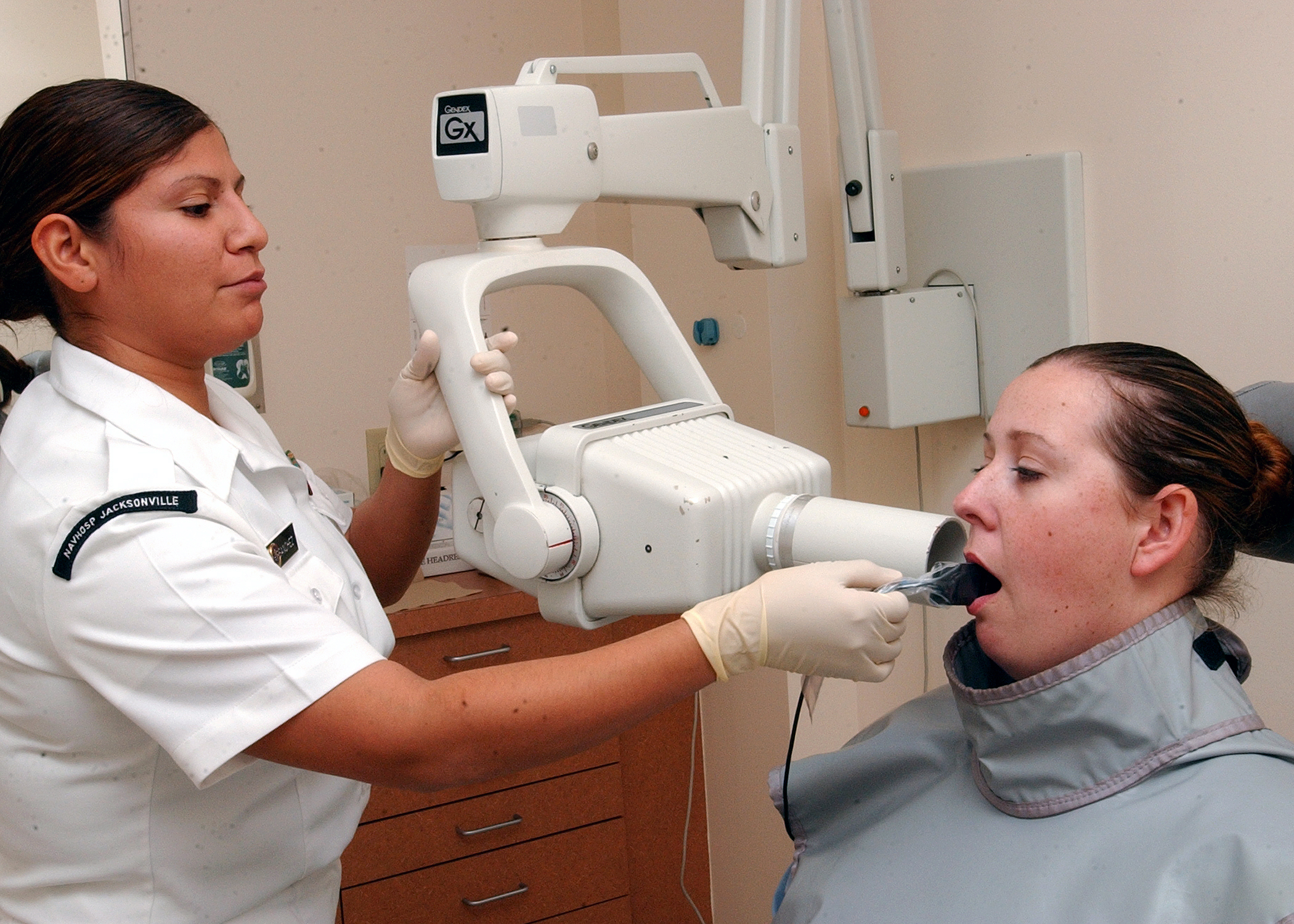 Mayport, Fla. (Nov. 22, 2005) - U.S. Navy Hospital Corpsman 3rd Class Rita Sanchez prepares a patient for a routine dental x-ray at the Naval Station Mayport Branch Medical Clinic. U.S. Navy photo by Photographer's Mate 2nd Class Elizabeth Williams (RELEASED)